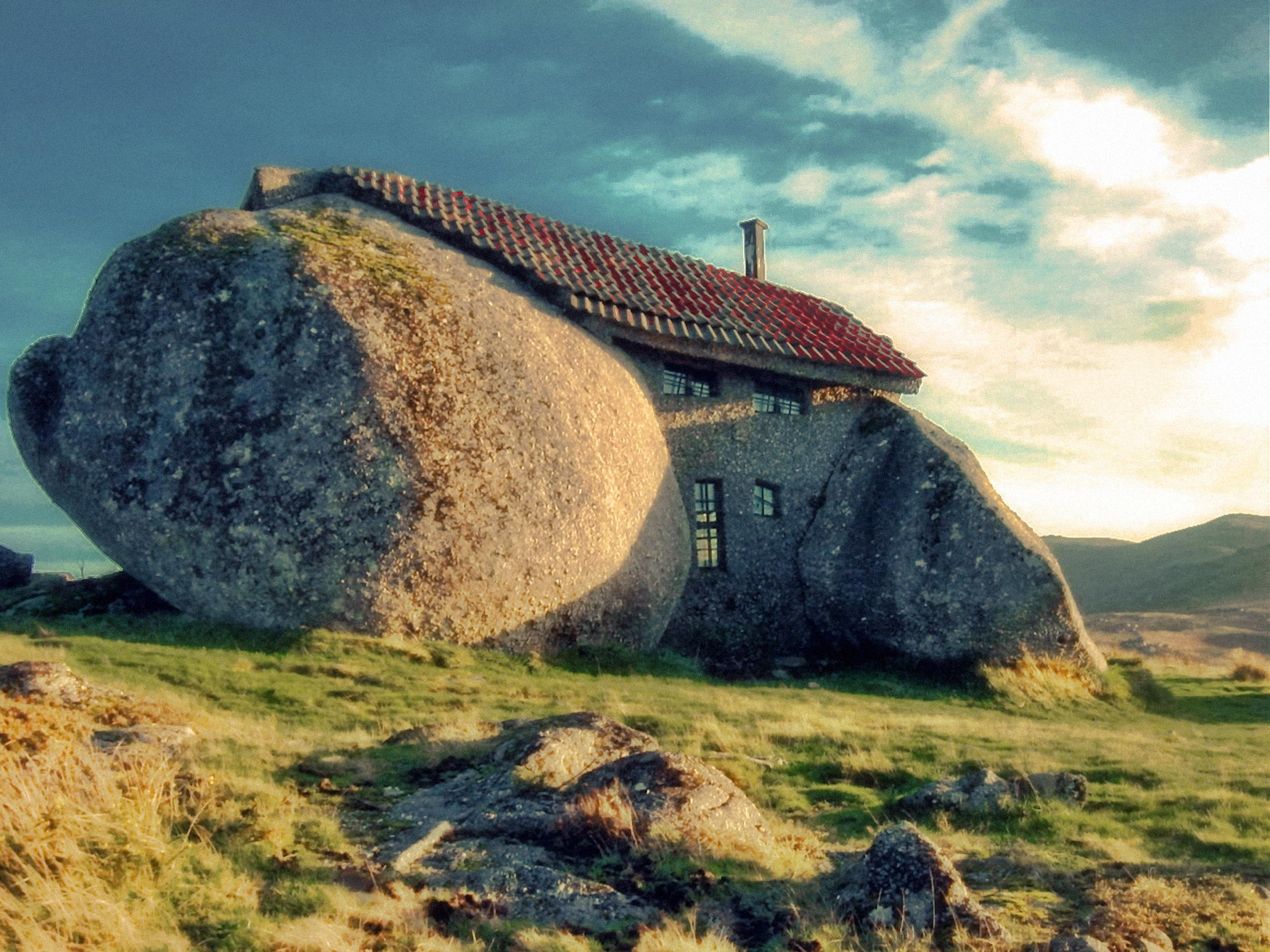 In the montains of Fafe, Portugal.